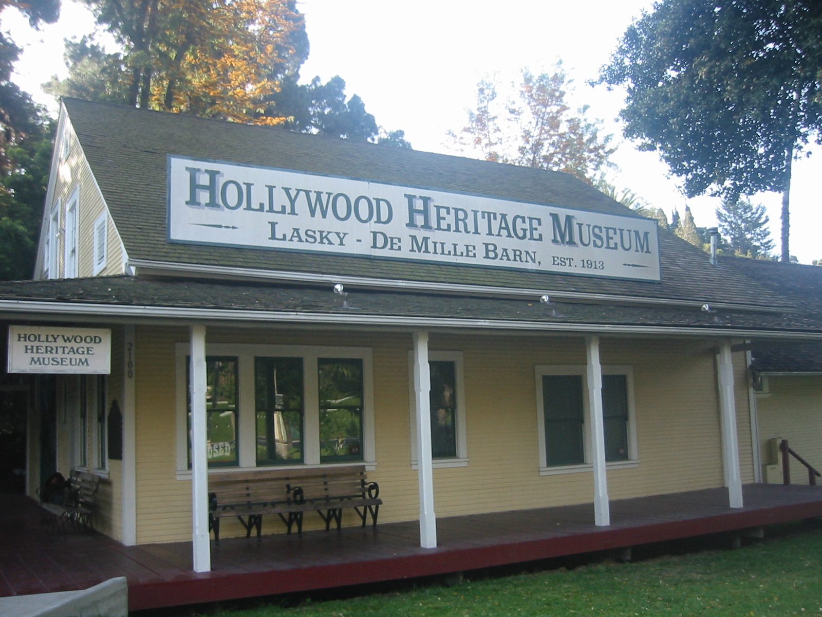 The Lasky-DeMille Barn — in Hollywood (Los Angeles), California. Present day location of the Hollywood Heritage Museum.